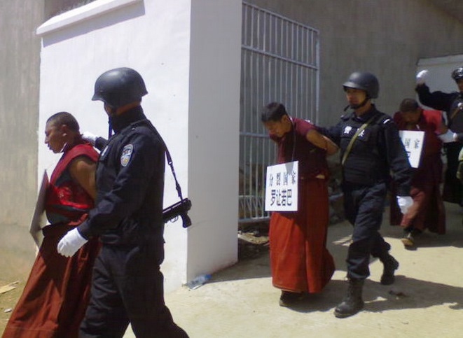 Tibetan Monks arrested in 2008